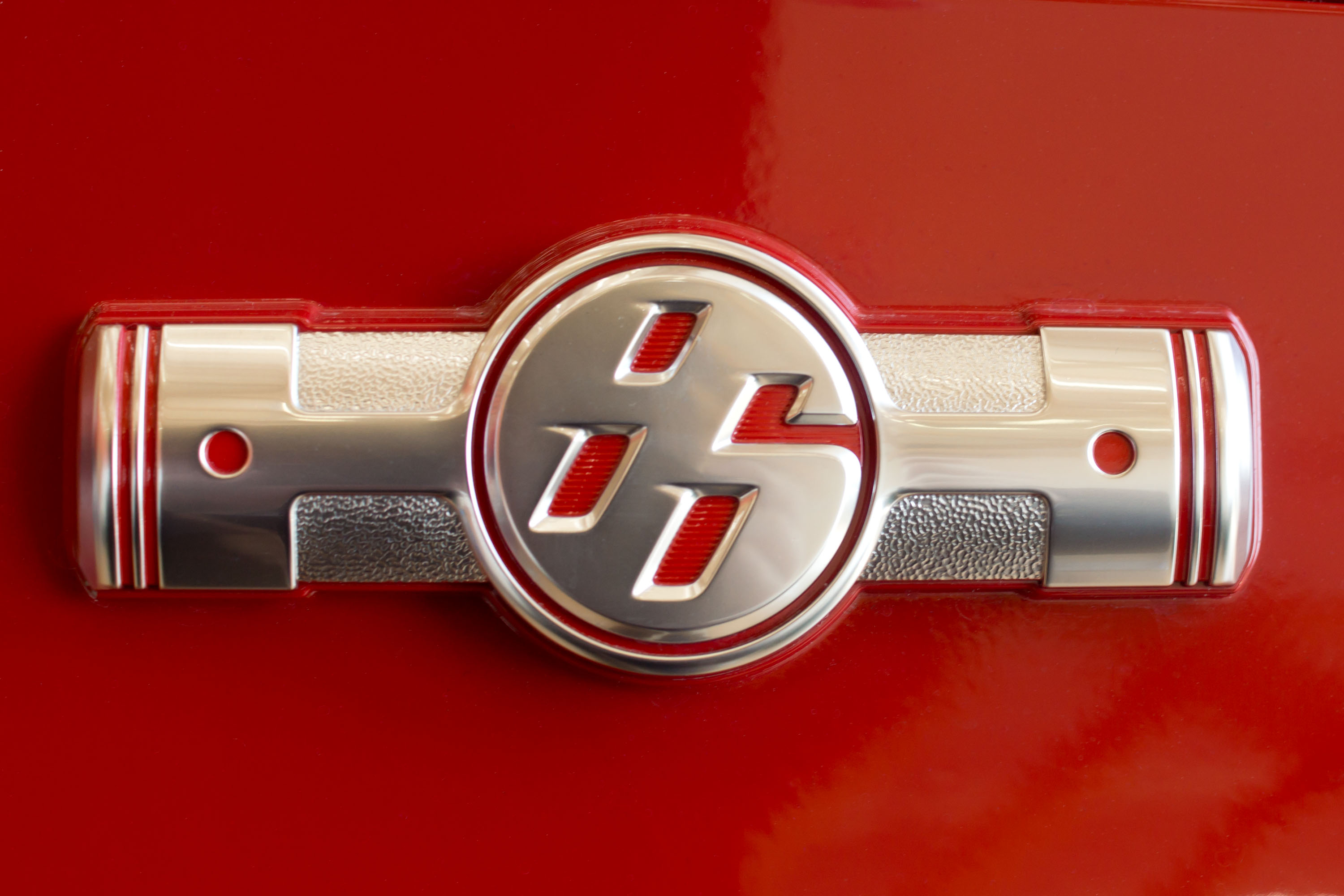 Toyota 86 GT's logo